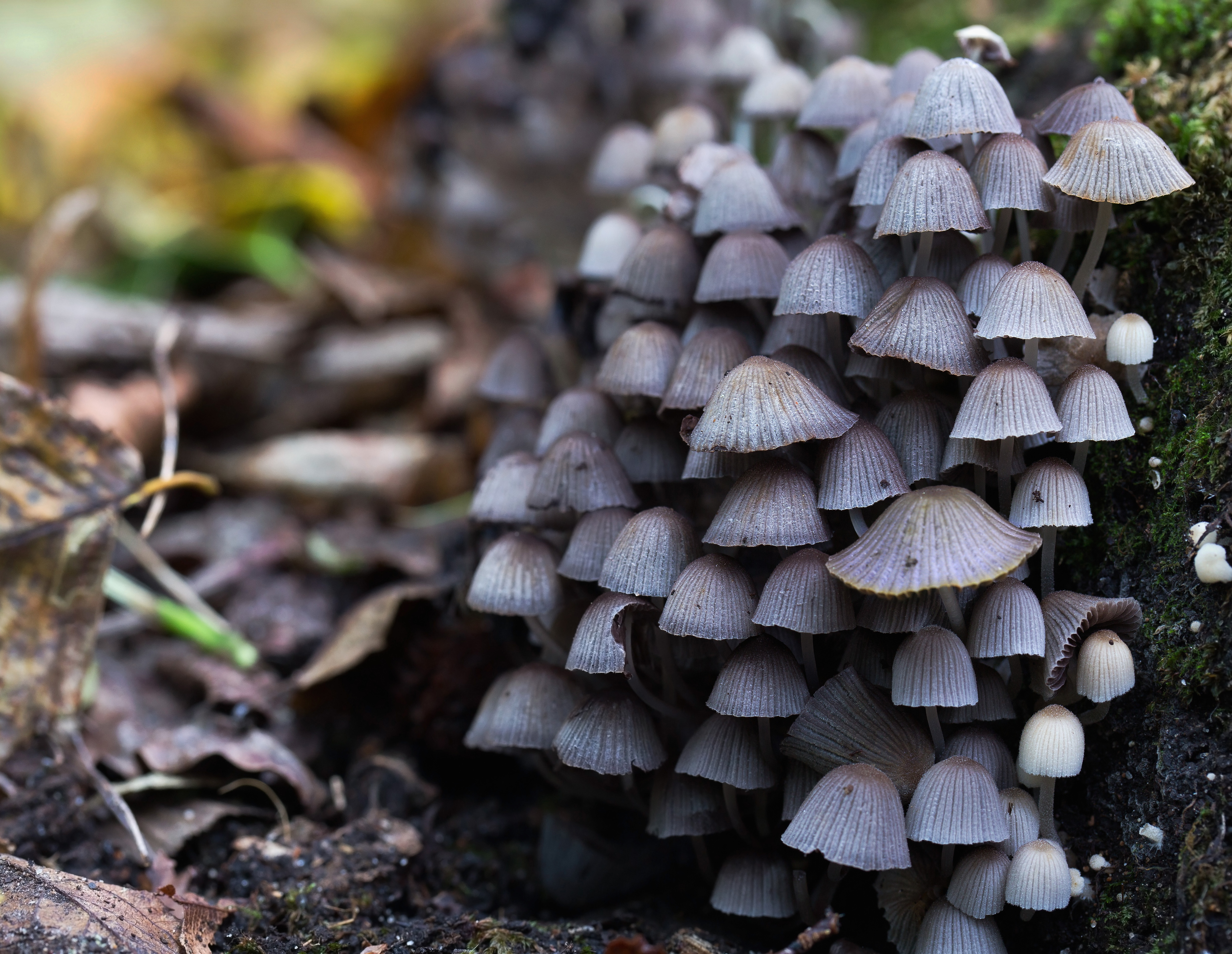 Coprinellus disseminatus, Fairy Inkcap mushroom, taken in London, UK